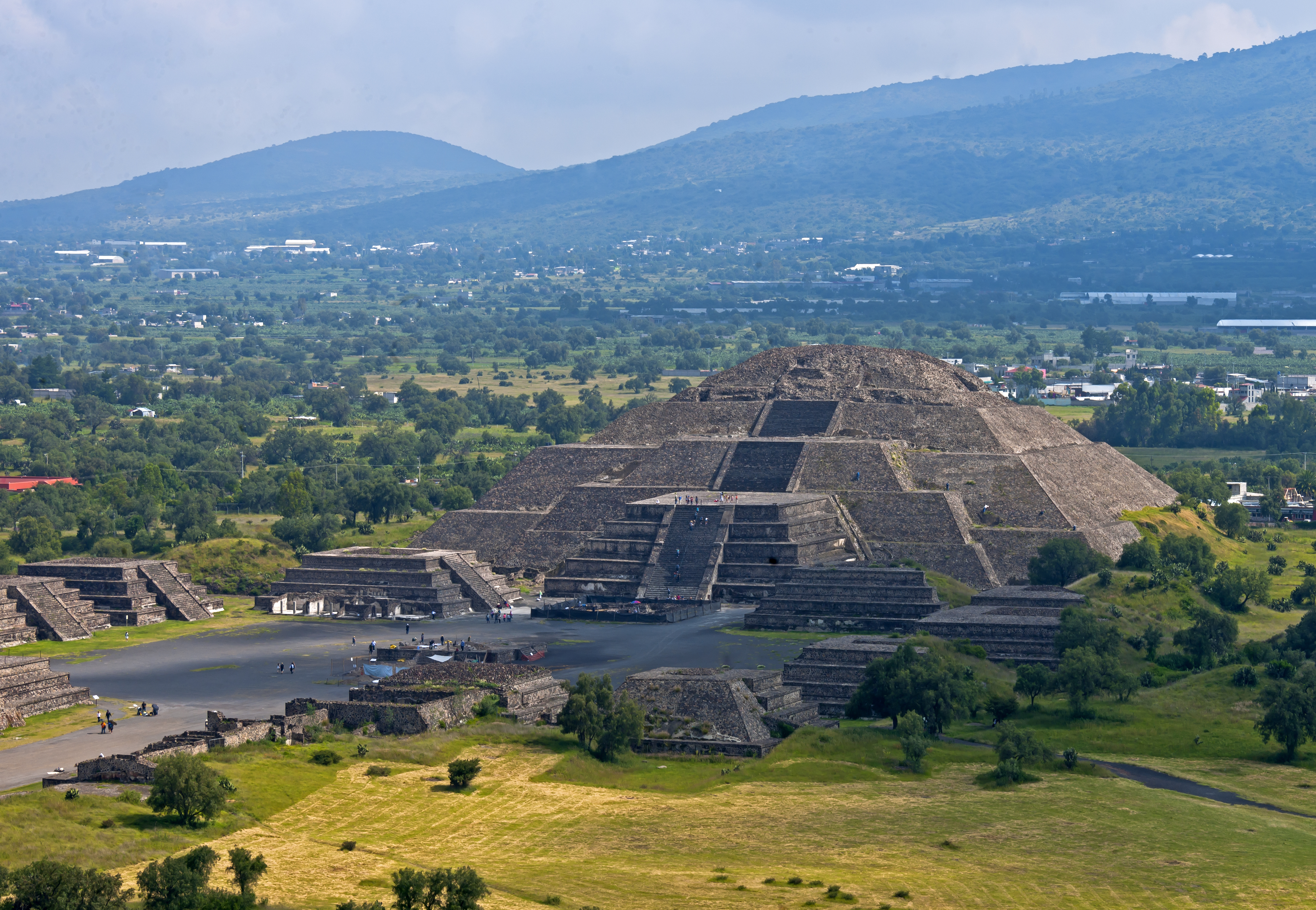 Pirámide de la Luna from the top of Pirámide del Sol, Teotihuacan, Mexico